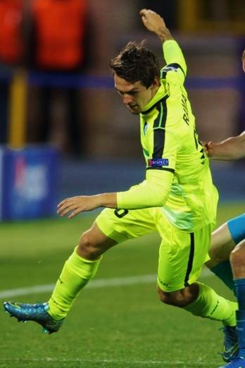 Benito Raman